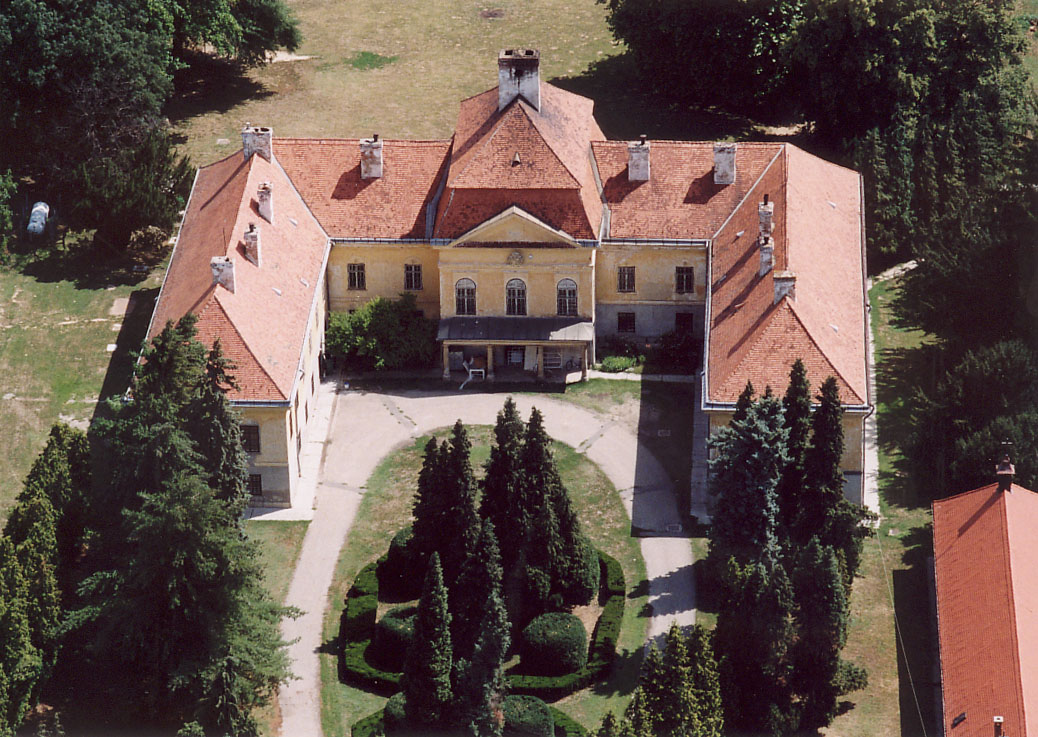 Palace - Iharosberény - Hungary - Europe (Inkey Mansion)